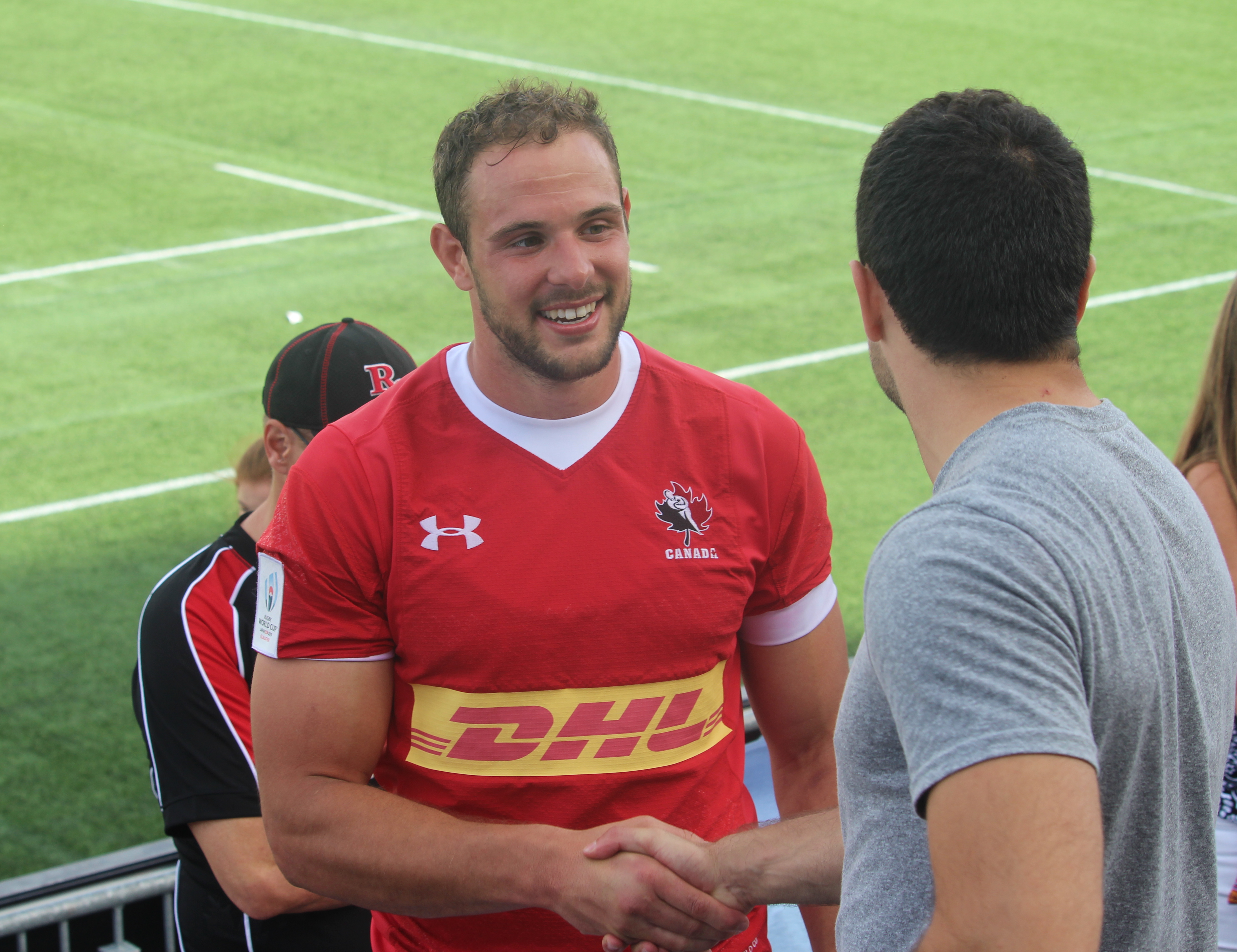 A photo of Canadian National Team Rugby Union member Tyler Ardron